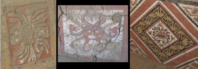 Evolution of the representation of god Ai-Apaec by the Moches.